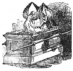 the Ark of the Covenant of the Biblical Tabernacle